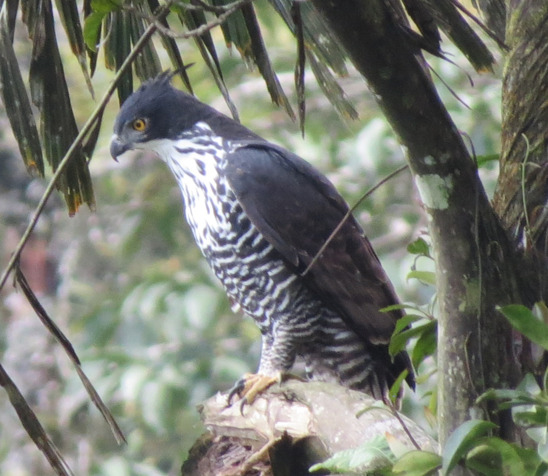 Blythe's hawk-eagle photographed on Fraser's Hill, Malaysia.